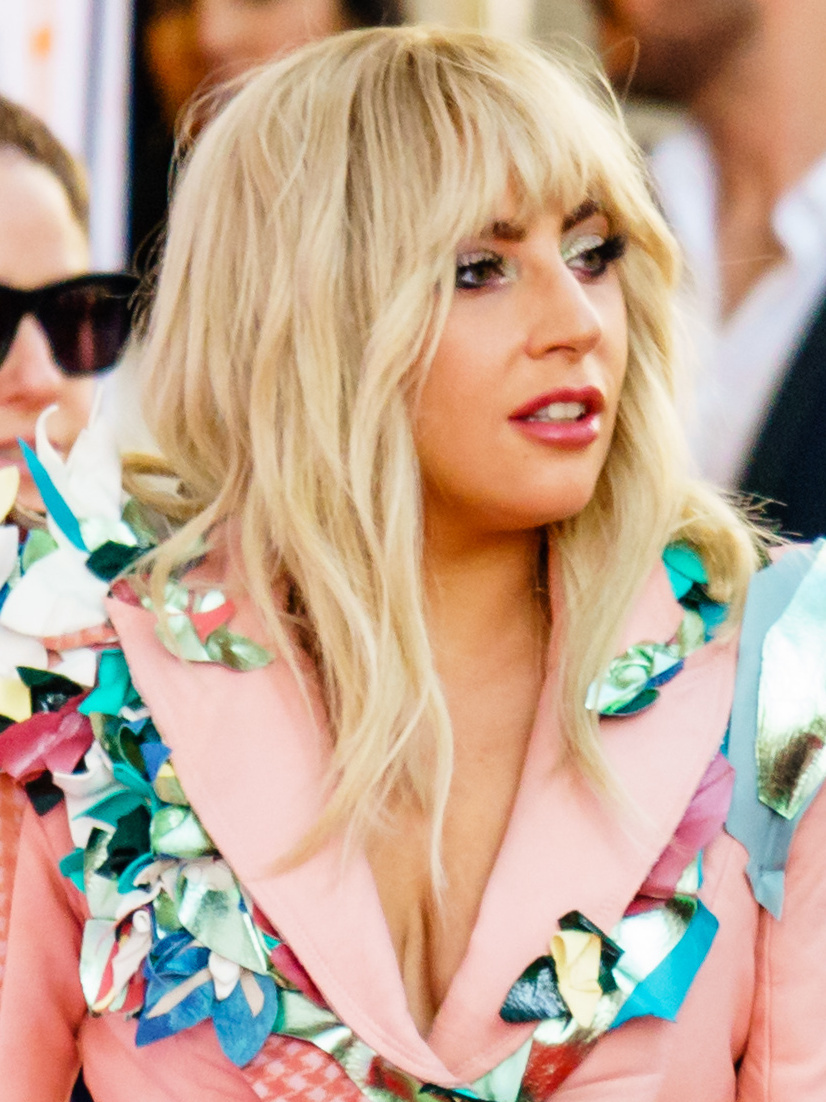 Lady Gaga at the premiere of "Gaga: Five Foot Two" at the Toronto International Film Festival, 2017